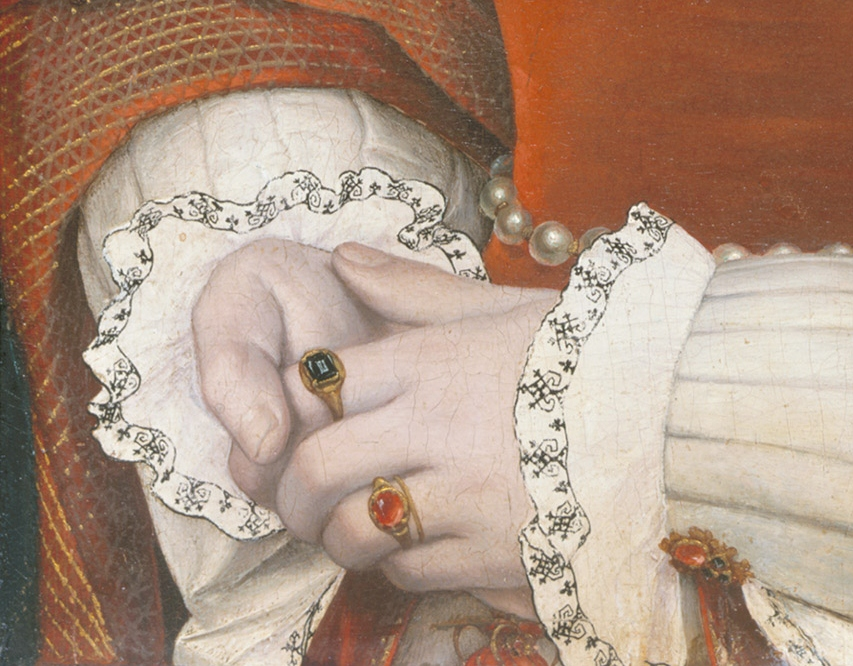 Detail of the portrait of Jane Seymour by Hans Holbein, sleeves with Holbein stich